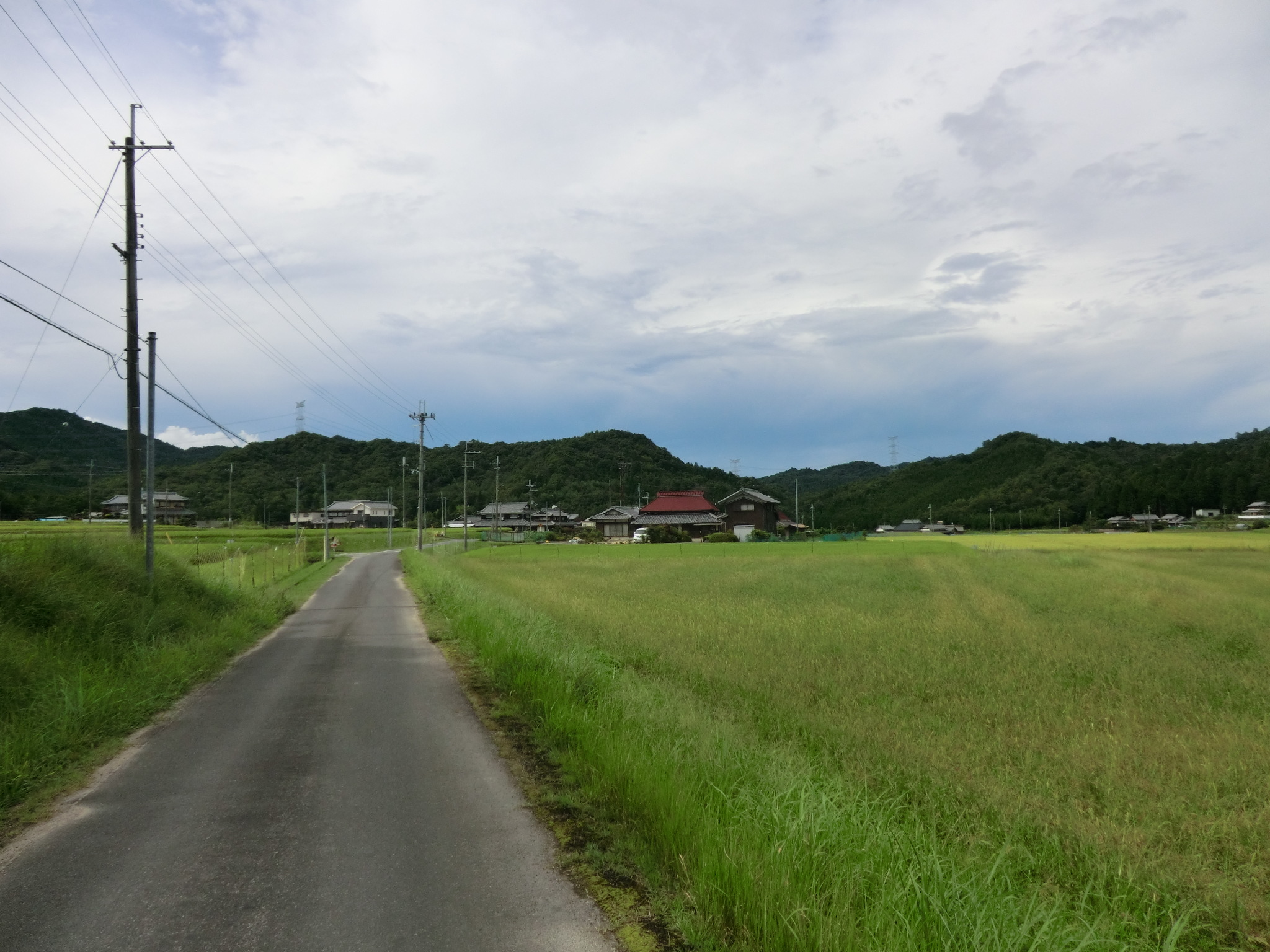 woodland close to the village. Satoyama. Sugitani Shinden , Konan town , Koka city , Shiga Prefecture